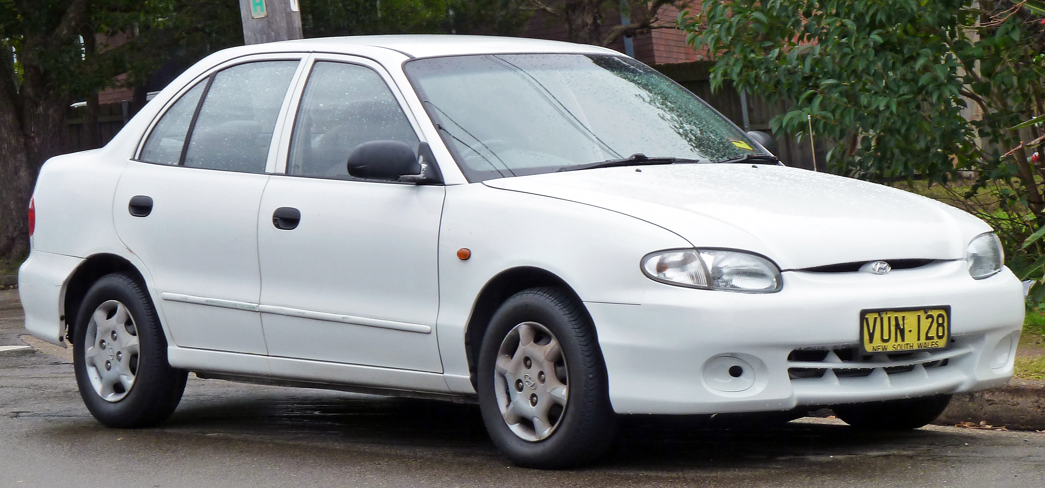 1999 Hyundai Excel (X3) GLX sedan. Photographed in Miranda, New South Wales, Australia.